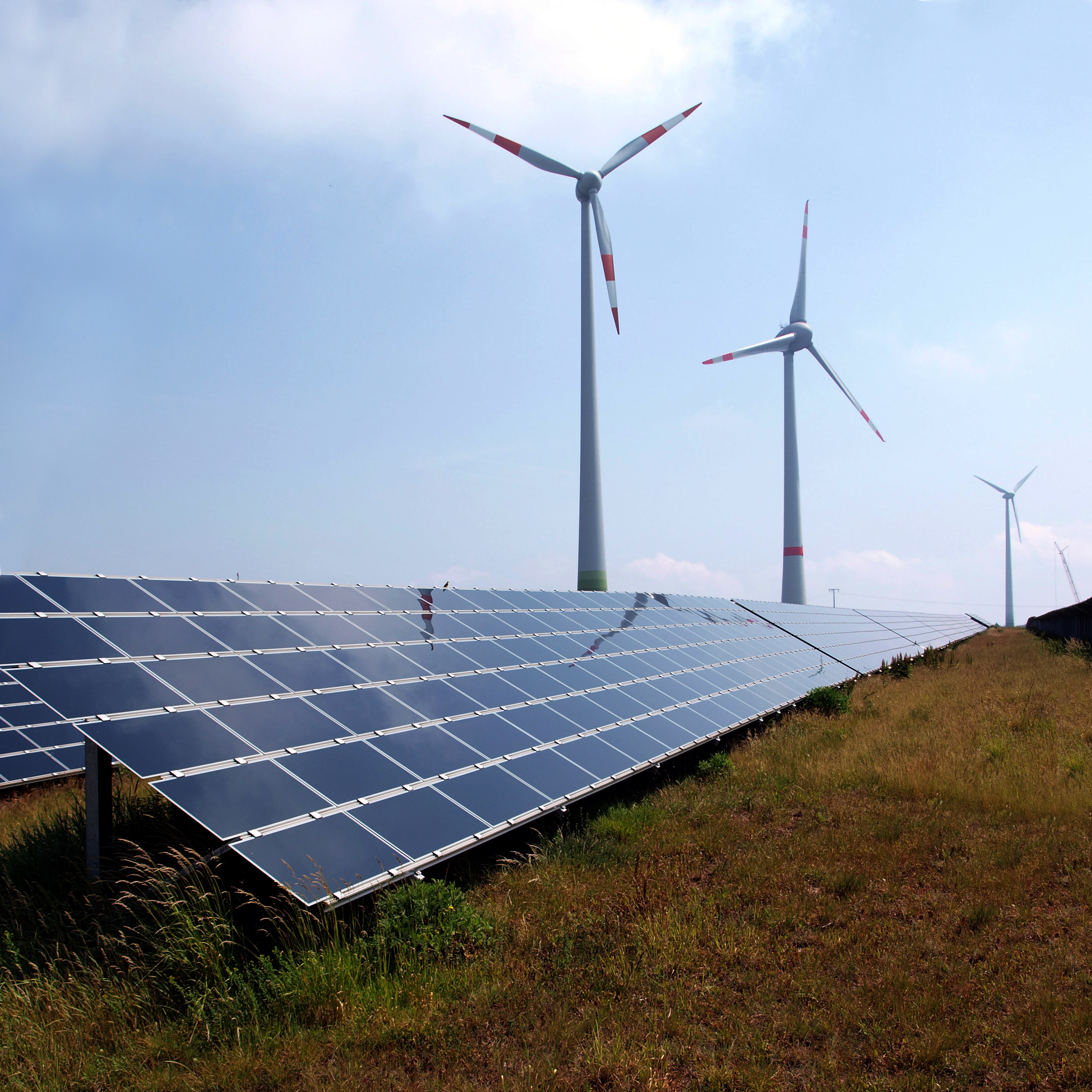 The windenergy park "Schneebergerhof" in Germany (Rhineland-Palatinate). In the forground thin film solar cells. In the center a wind turbine Enercon E-66 (1.5 MW), on the right Enercon E-126 (7.5 MW) and at the very right side again an E-66.